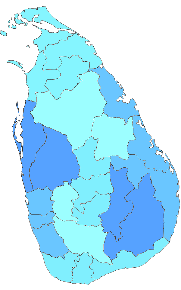 Sri Lankan Provinces and districts no names